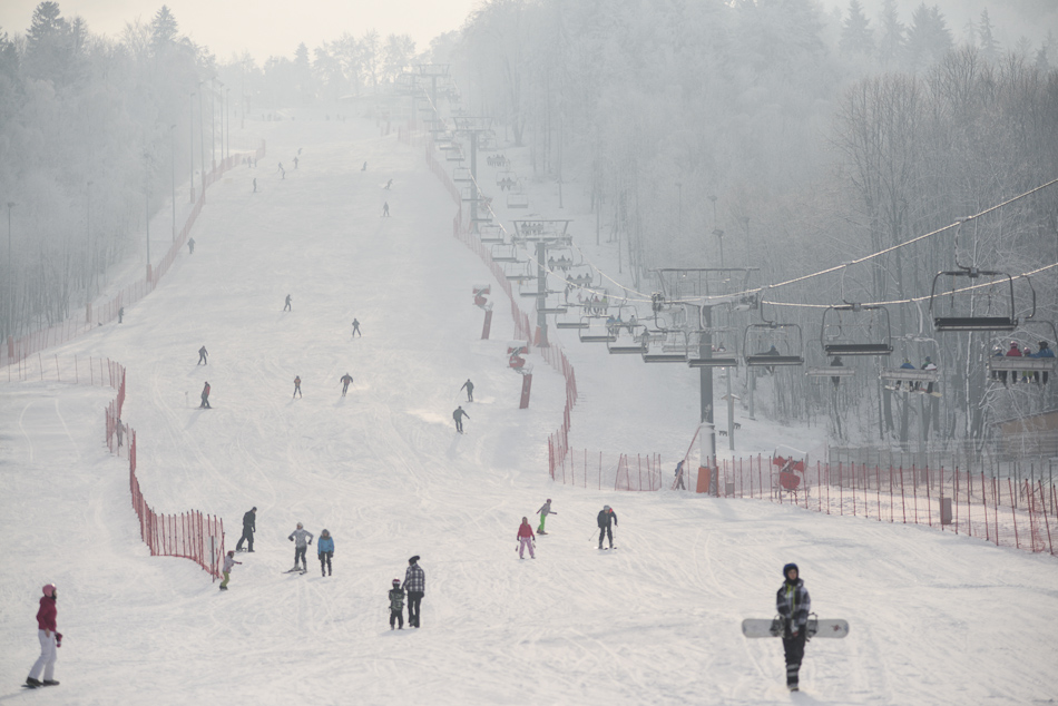 Hillside Debowiec in Beskid mountains, Bielsko-Biala, Poland